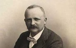 Cropped